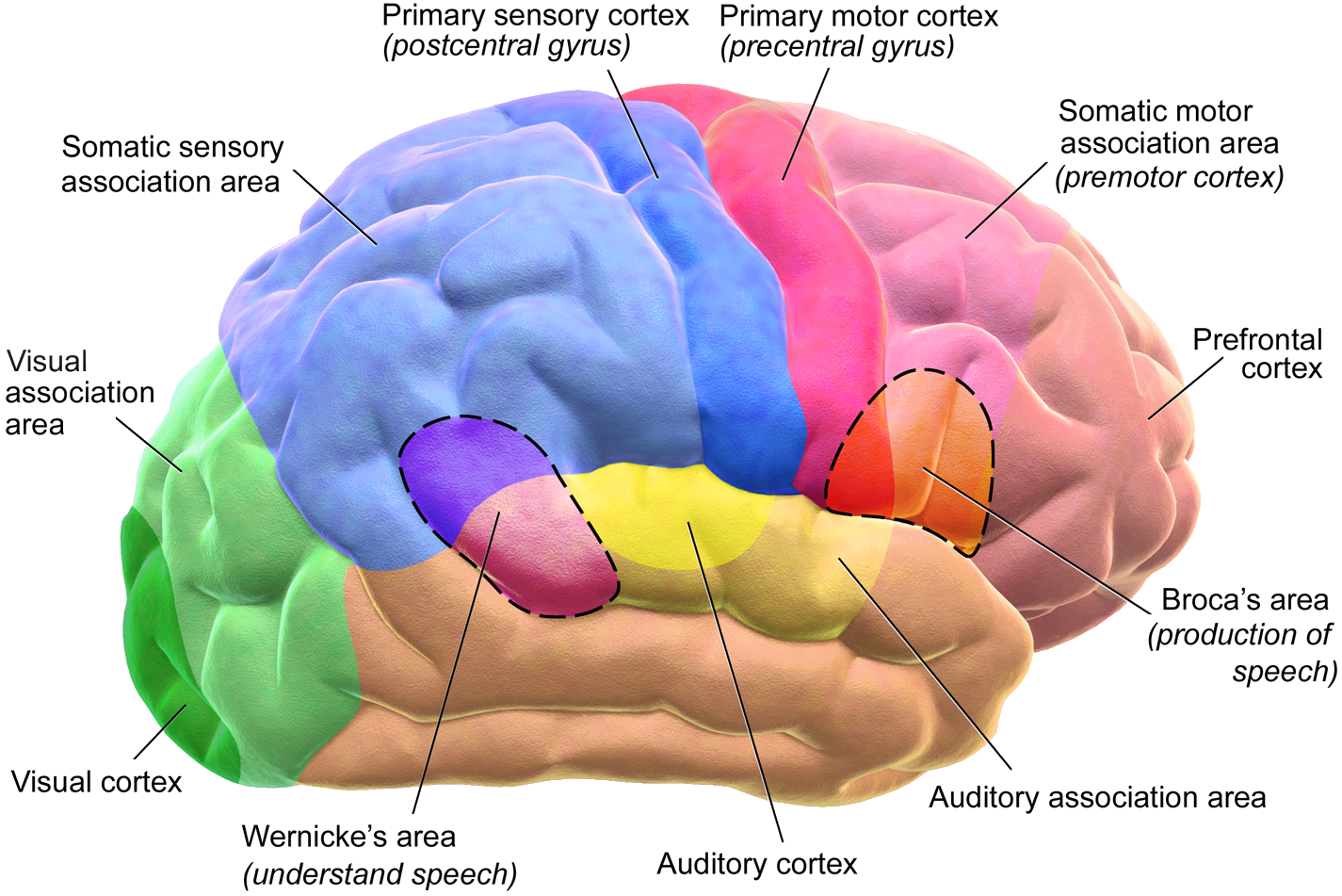 Motor and Sensory Regions of the Cerebral Cortex. This image was donated by Blausen Medical. Please visit our website to see more medical illustrations and animations.